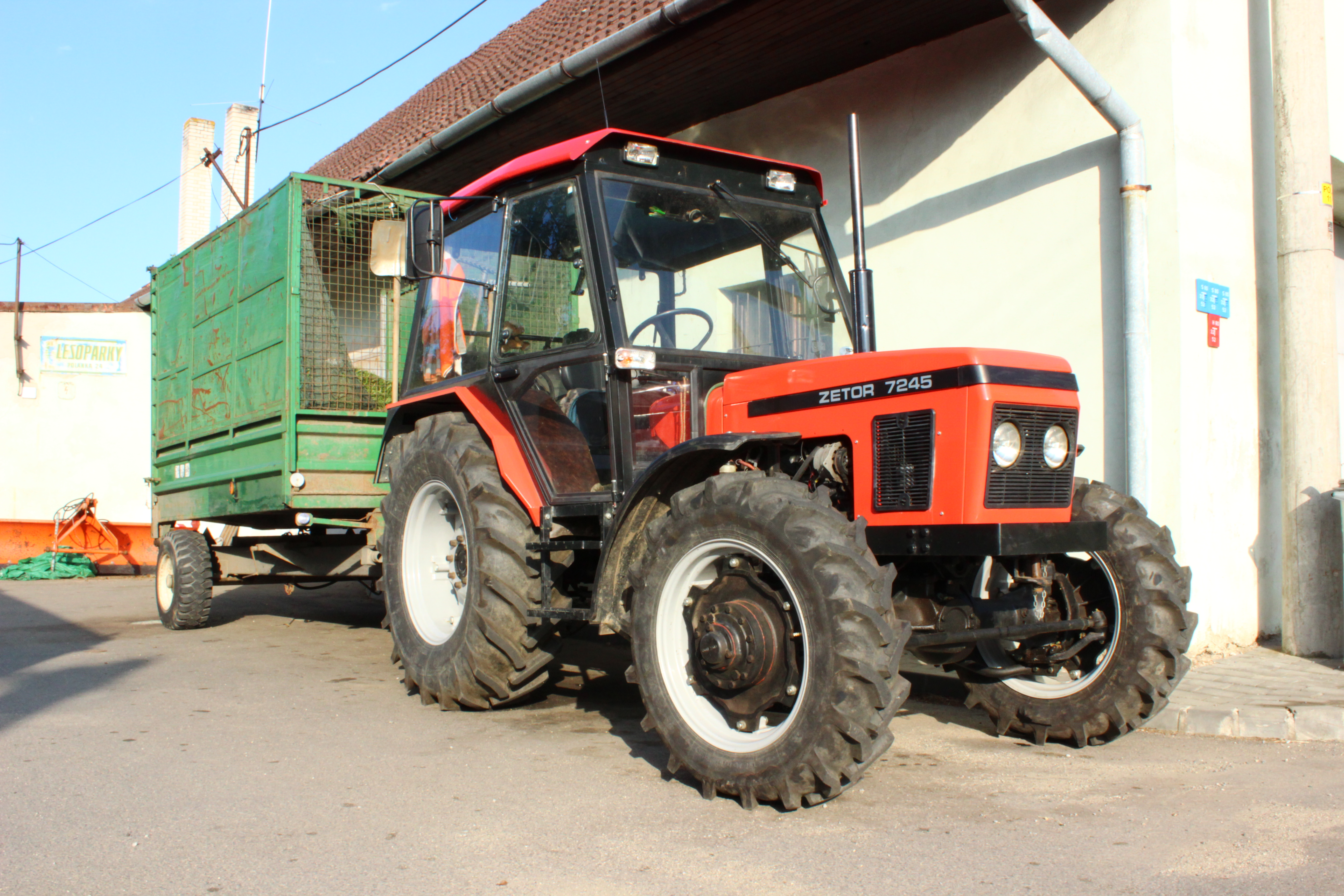 Czech tractor Zetor 7245 in Třebíč